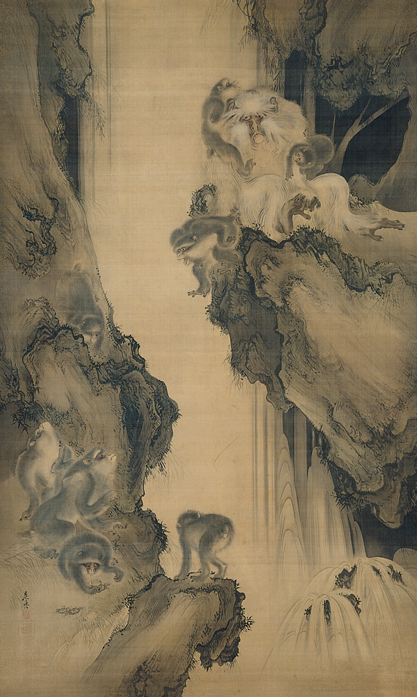 Waterfall and Monkeyslabel QS:Len,"Waterfall and Monkeys"